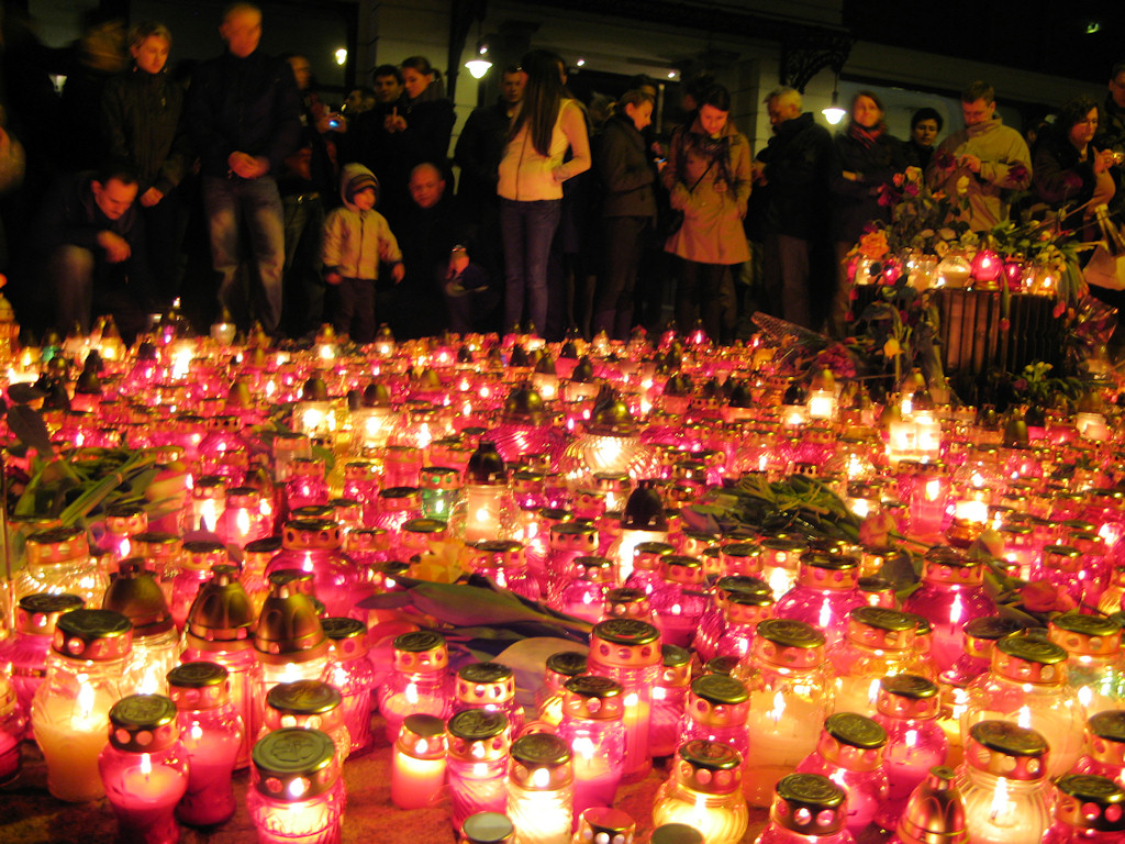 Warsaw after president's plane crash at night